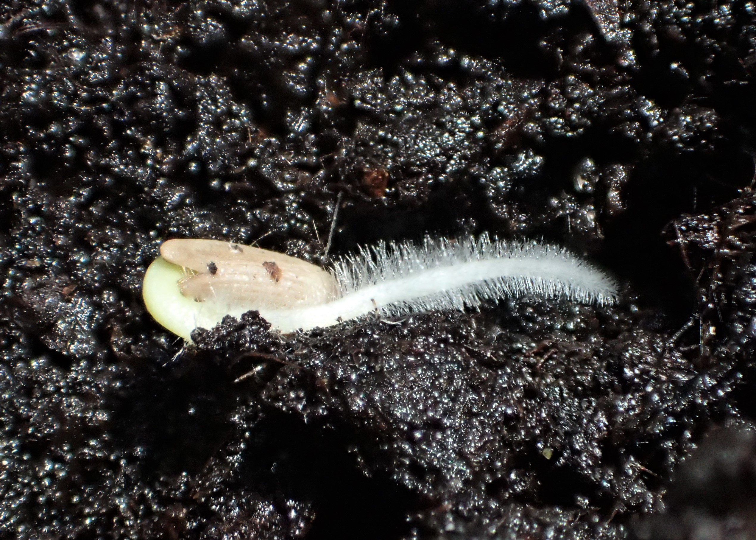 Carduus nutans (seedling). Cultivated in Szczecin, NW Poland (seeds collected from wild growing plants in Trzcińsko Zdrój, NW Poland)